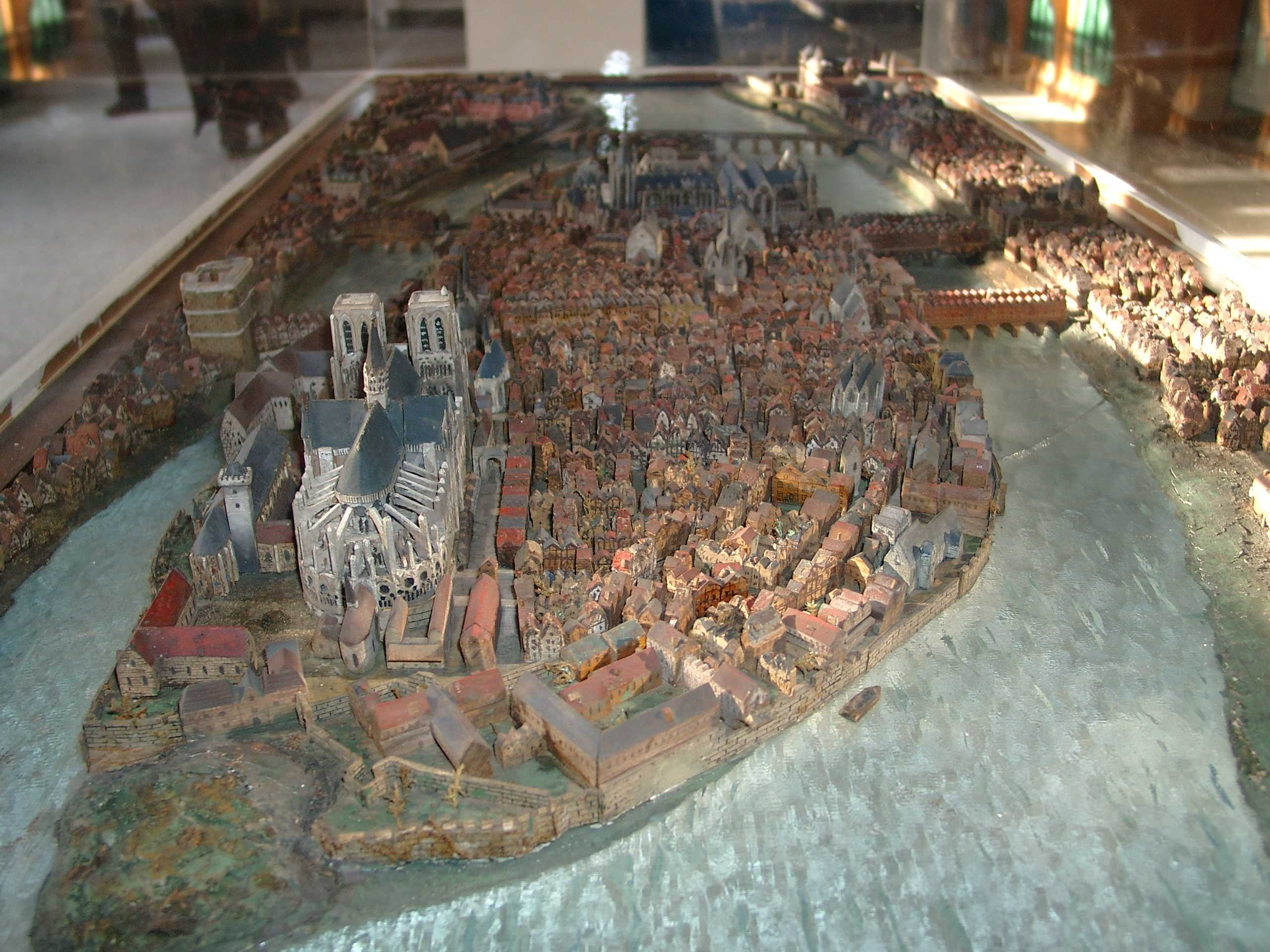 Model of medieval Paris (16.century), view from east; Musée Carnavalet (taking photos without flash is allowed)